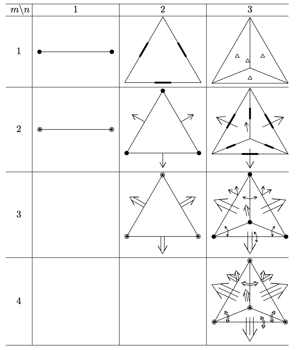 {\displaystyle m \leq n+1}{\displaystyle m \leq n+1}:: diagrams of the finite elements